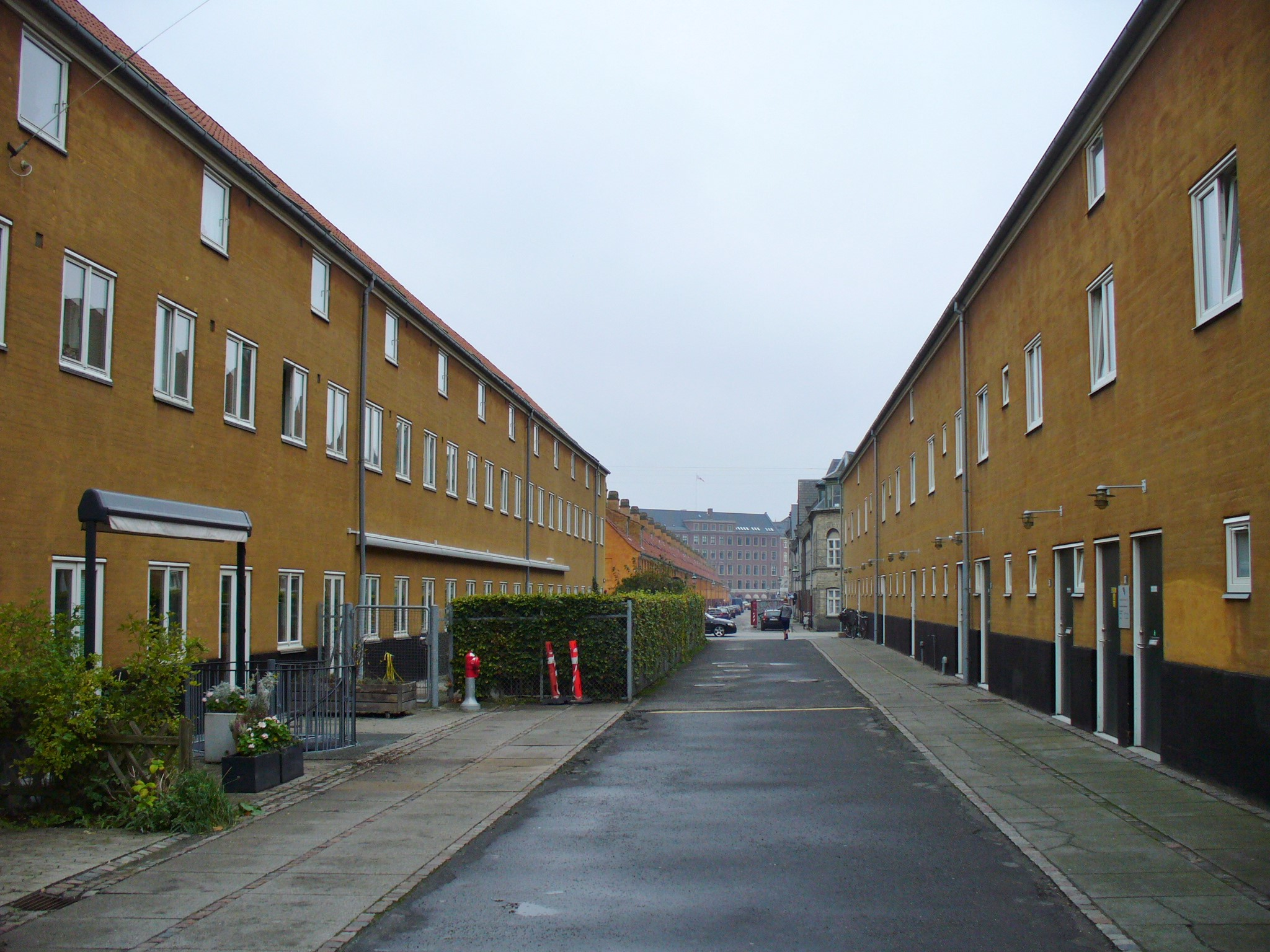 The street Timiansgade in Indre By in Copenhagen.